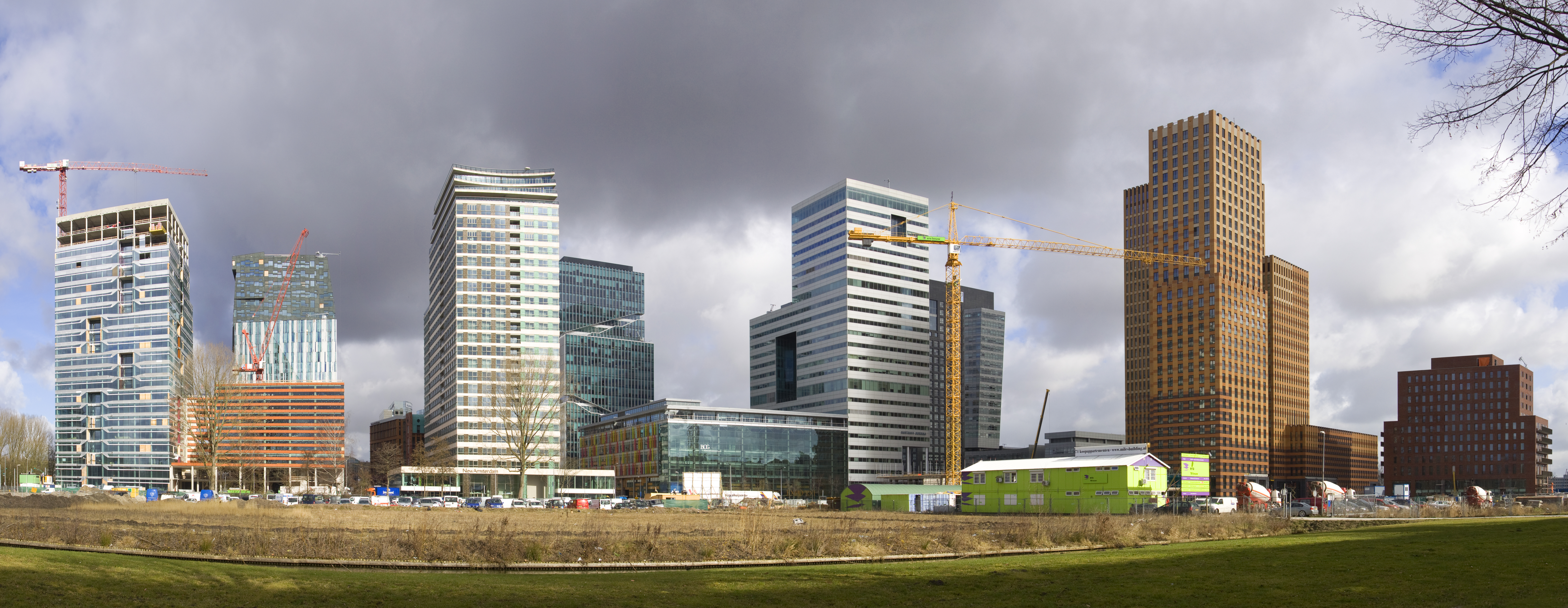 A panorama of the Zuidas (business district) of Amsterdam, the Netherlands, which is currently largely still under construction.